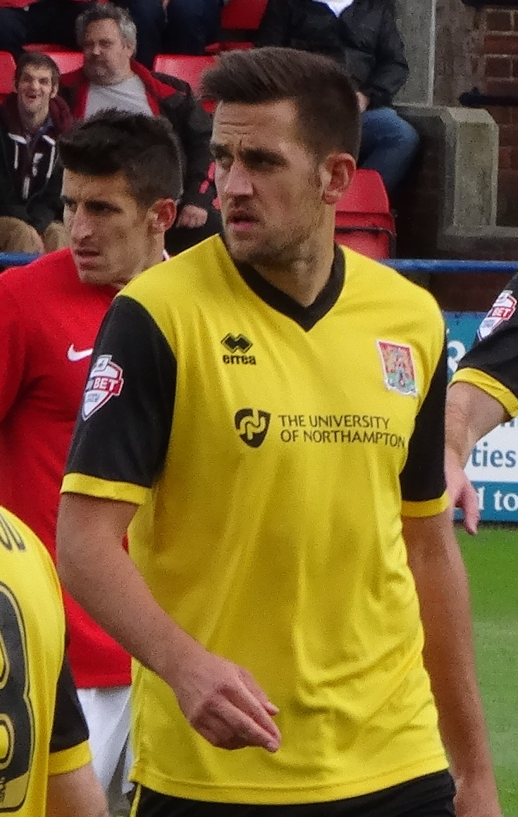 Darren Carter playing for Northampton Town against York City at Bootham Crescent, York on 16 August 2014